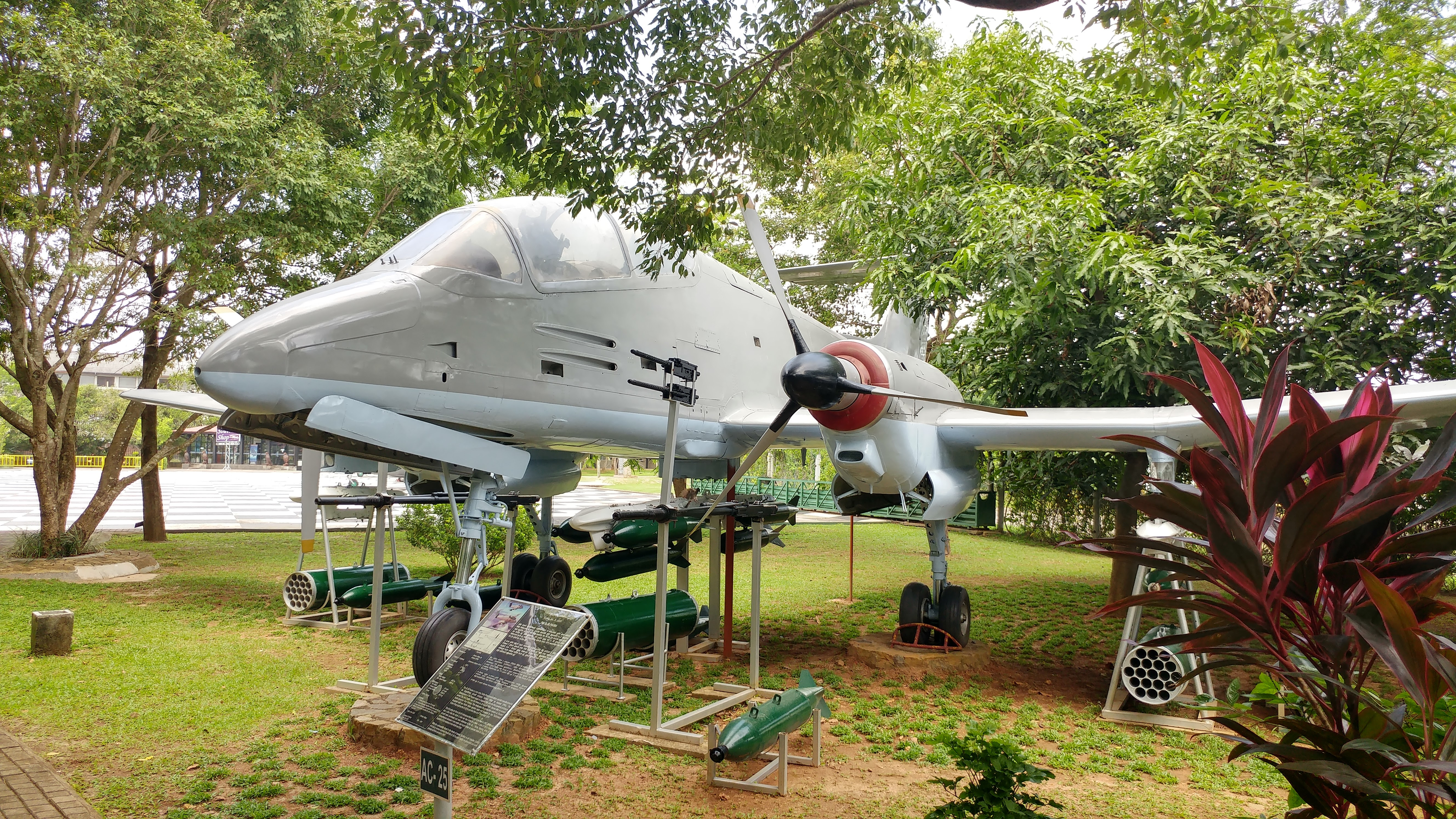 Sri Lanka Air Force Museum - FMA IA 58 Pucará